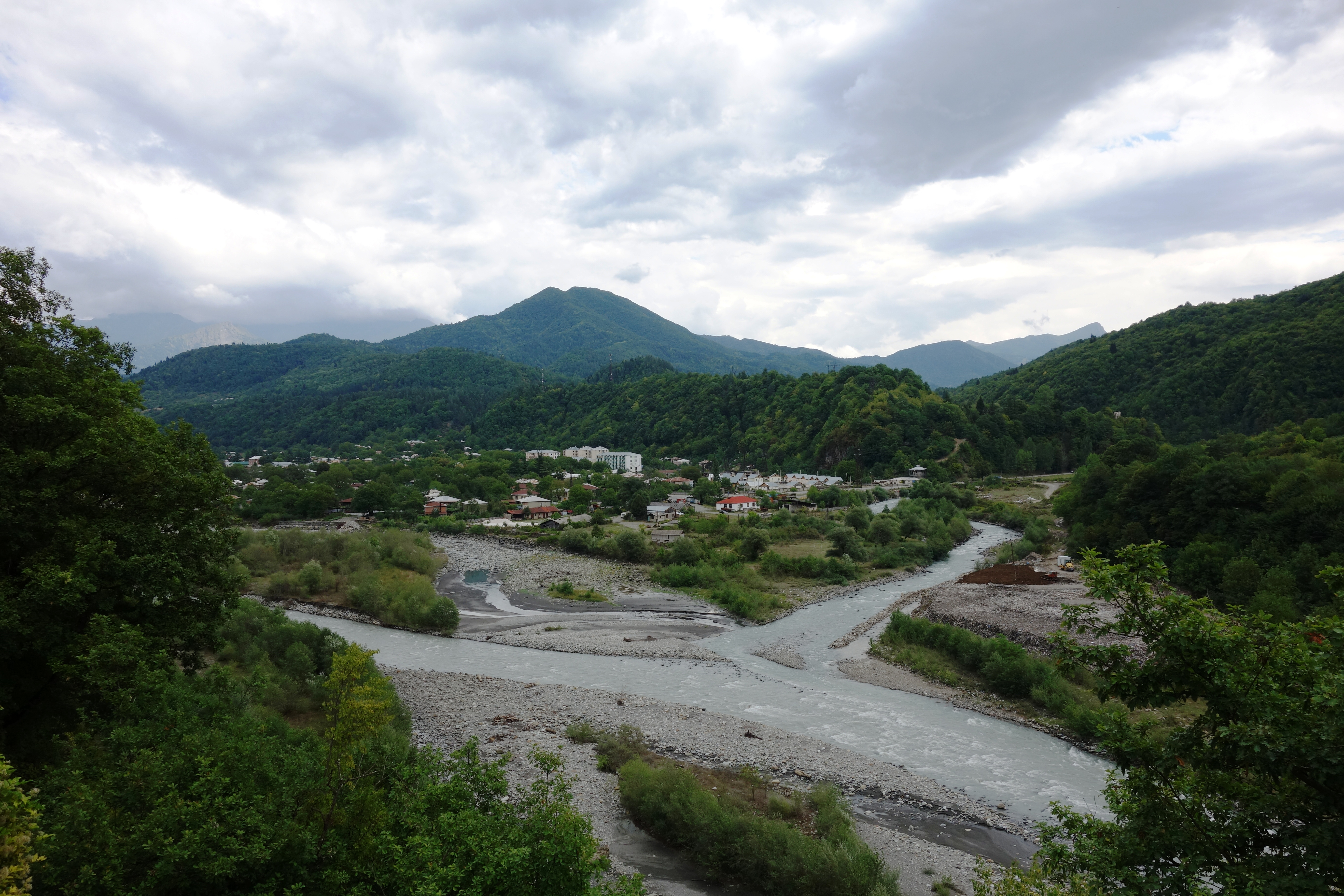 Oni, Racha, Georgia. Rv. Jejora joins Rioni in the west of the Oni town